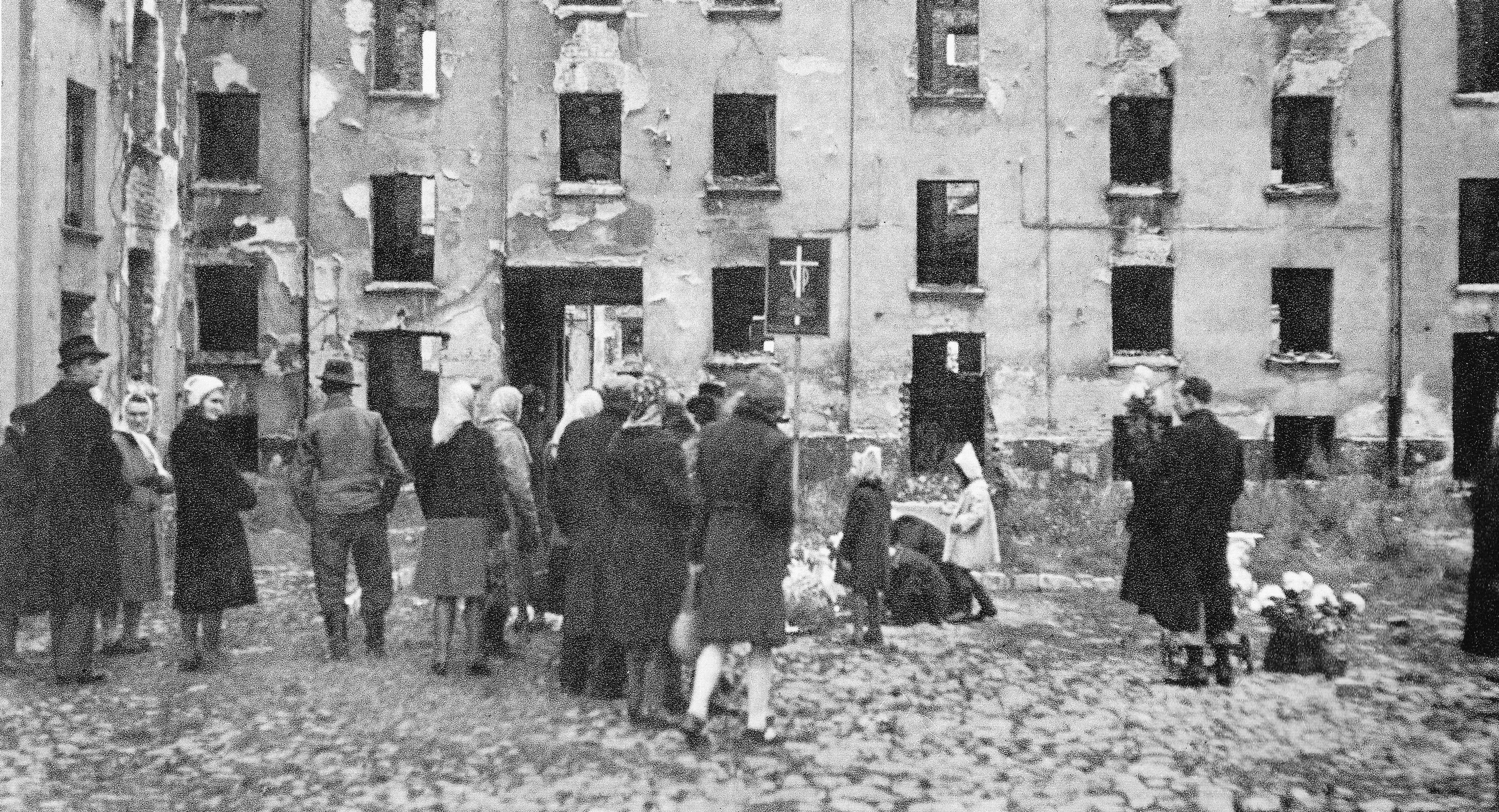 People gathered on site of one of the Wola Massacre murders